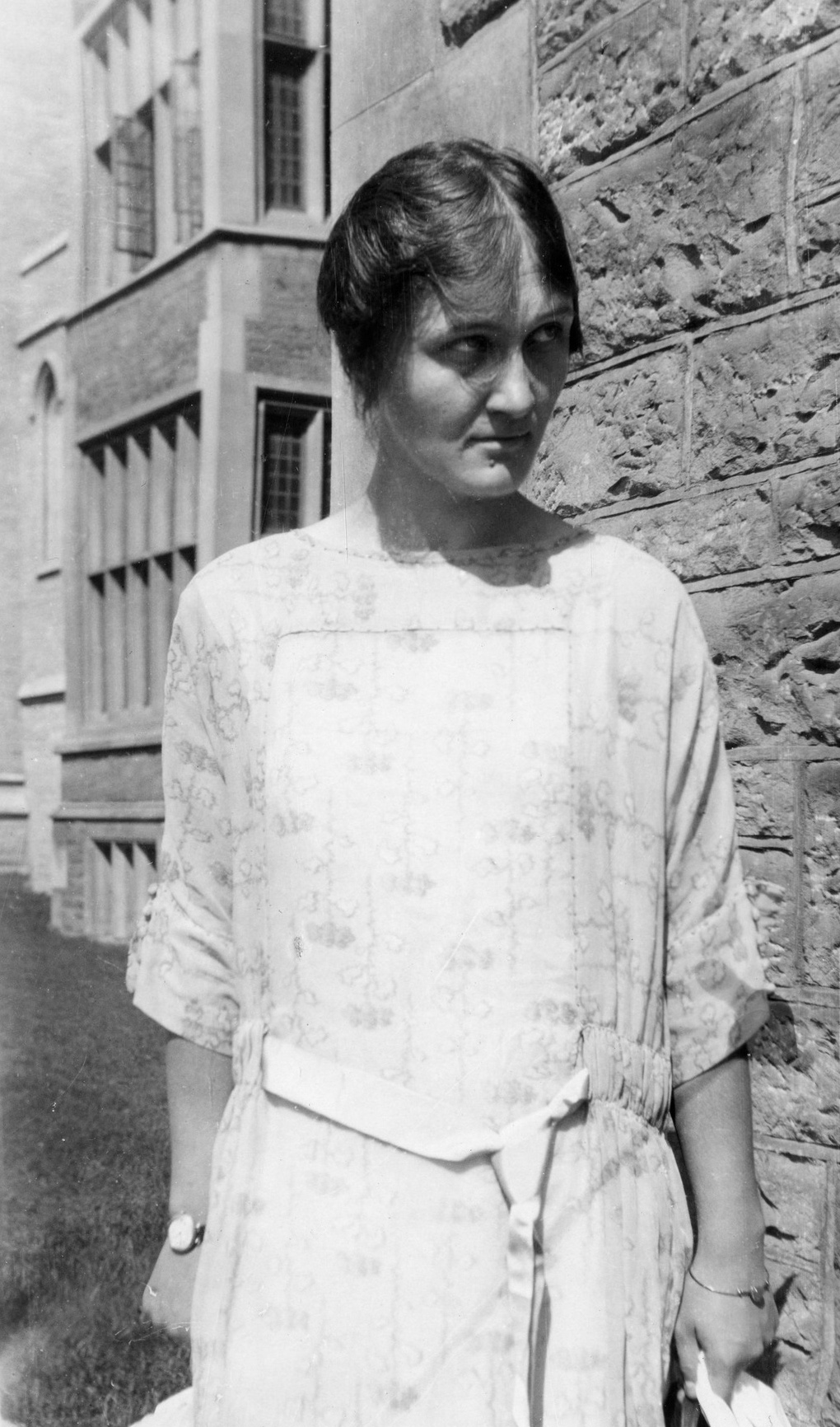 Subject: Gaposchkin, Cecilia Helena Payne 1900- Harvard College Observatory Type: Black-and-white photographs Topic: Astrophysics Women scientists Local number: SIA Acc. 90-105 [SIA2009-1327] Summary: Cecilia Helena Payne Gaposchkin (1900-1979), astrophysicist at Harvard College Observatory, was known for her research on stellar spectra Cite as: Acc. 90-105 - Science Service, Records, 1920s-1970s, Smithsonian Institution Archives Persistent URL:Link to data base record Repository:Smithsonian Institution Archives View more collections from the Smithsonian Institution.